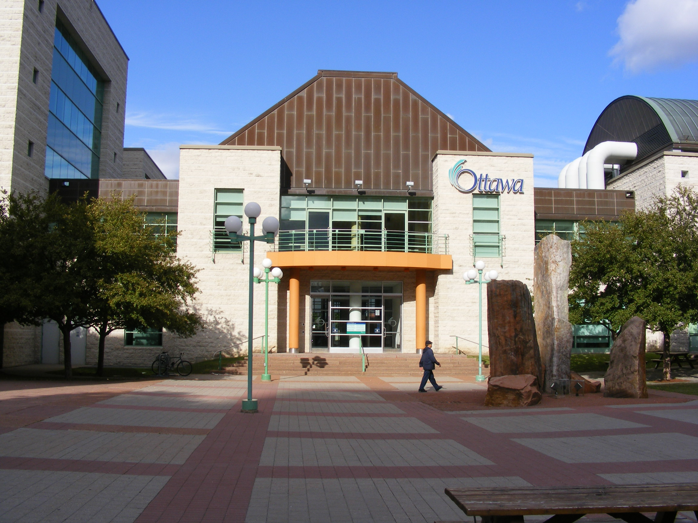 Ottawa City Hall